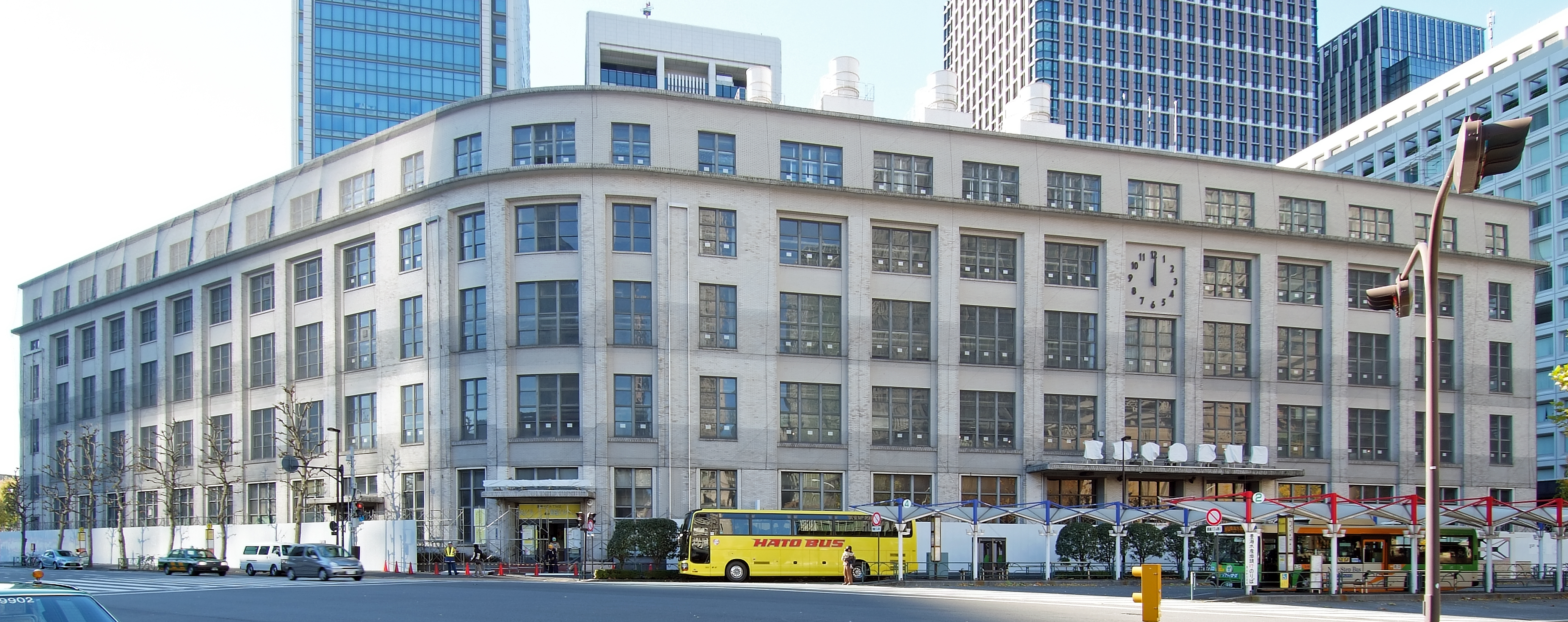 Tokyo Chuo Post Officein Chiyoda-ku, Tokyo, Japan.